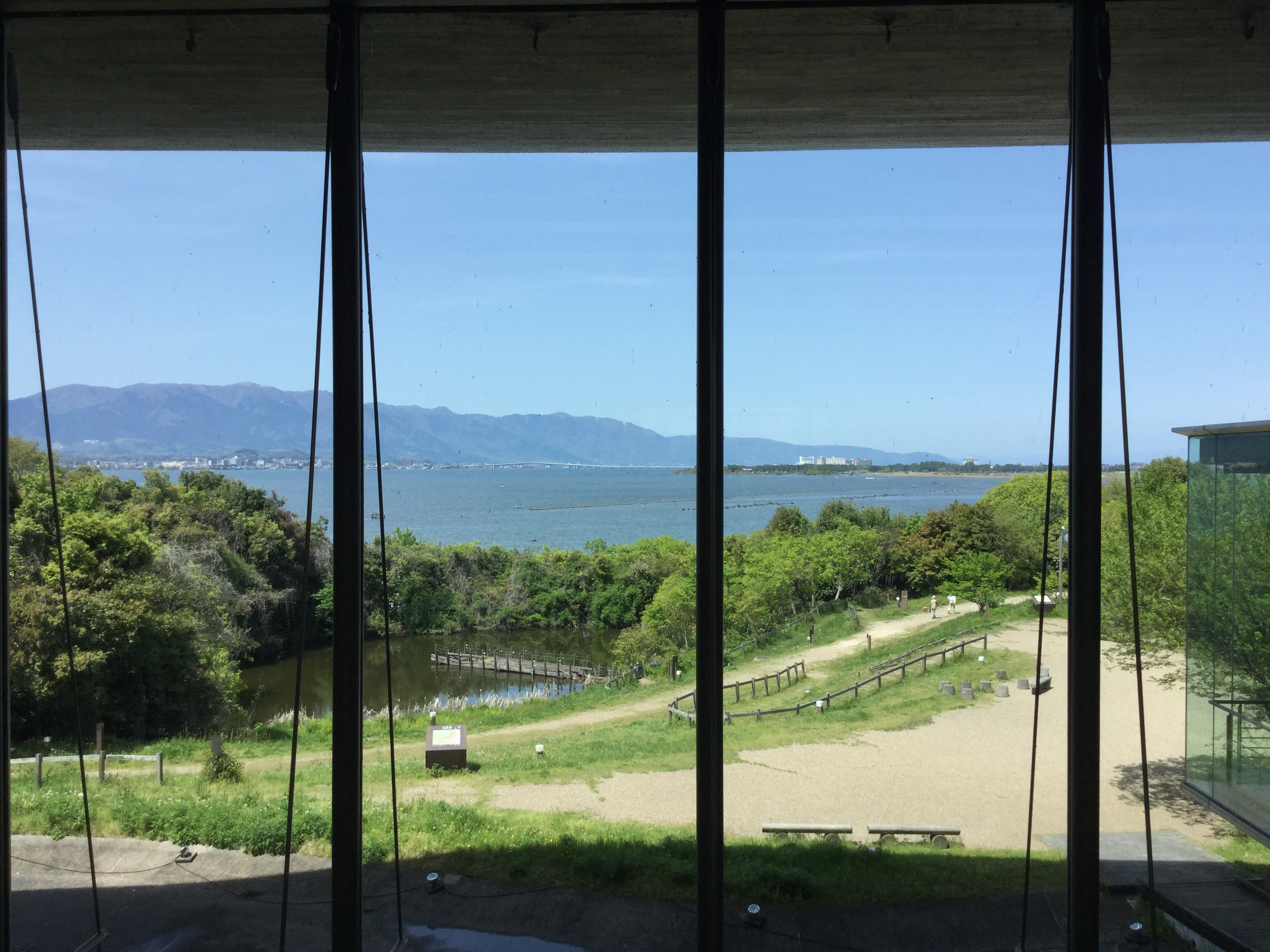 Lake Biwa view from Lake Biwa Museum